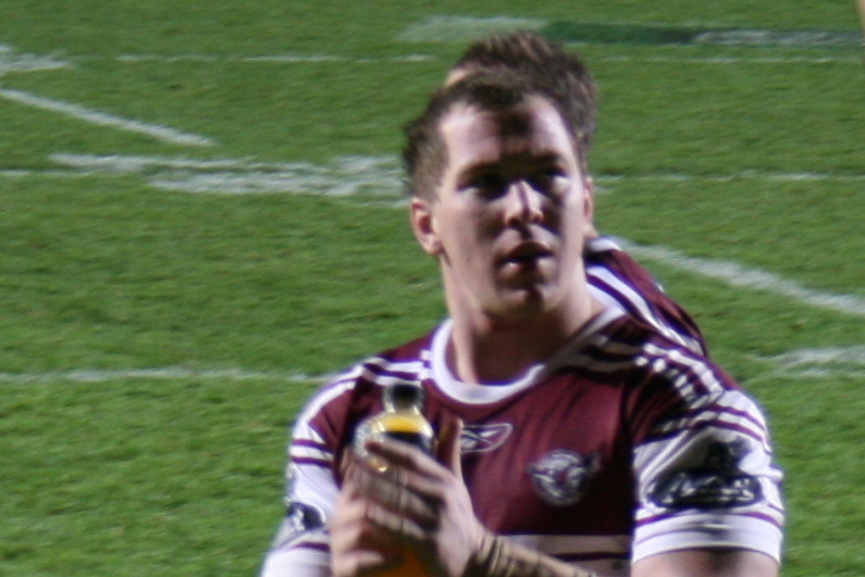 pic of manly player